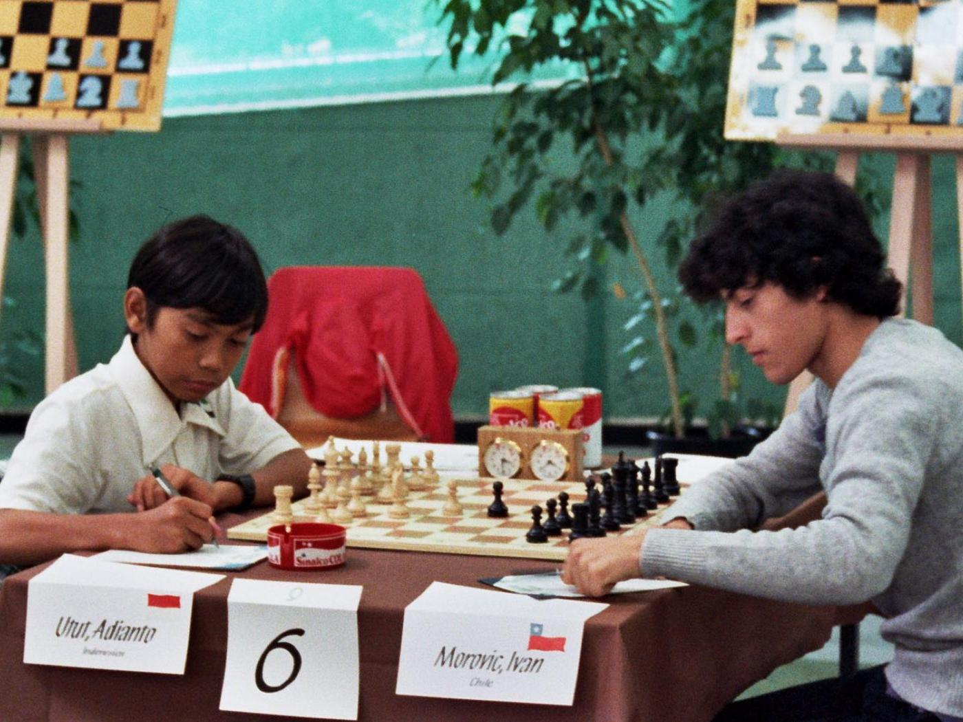 Utut and Morovic, Junior Chess World Championship 1980 at Dortmund, Photographer Gerhard Hund.